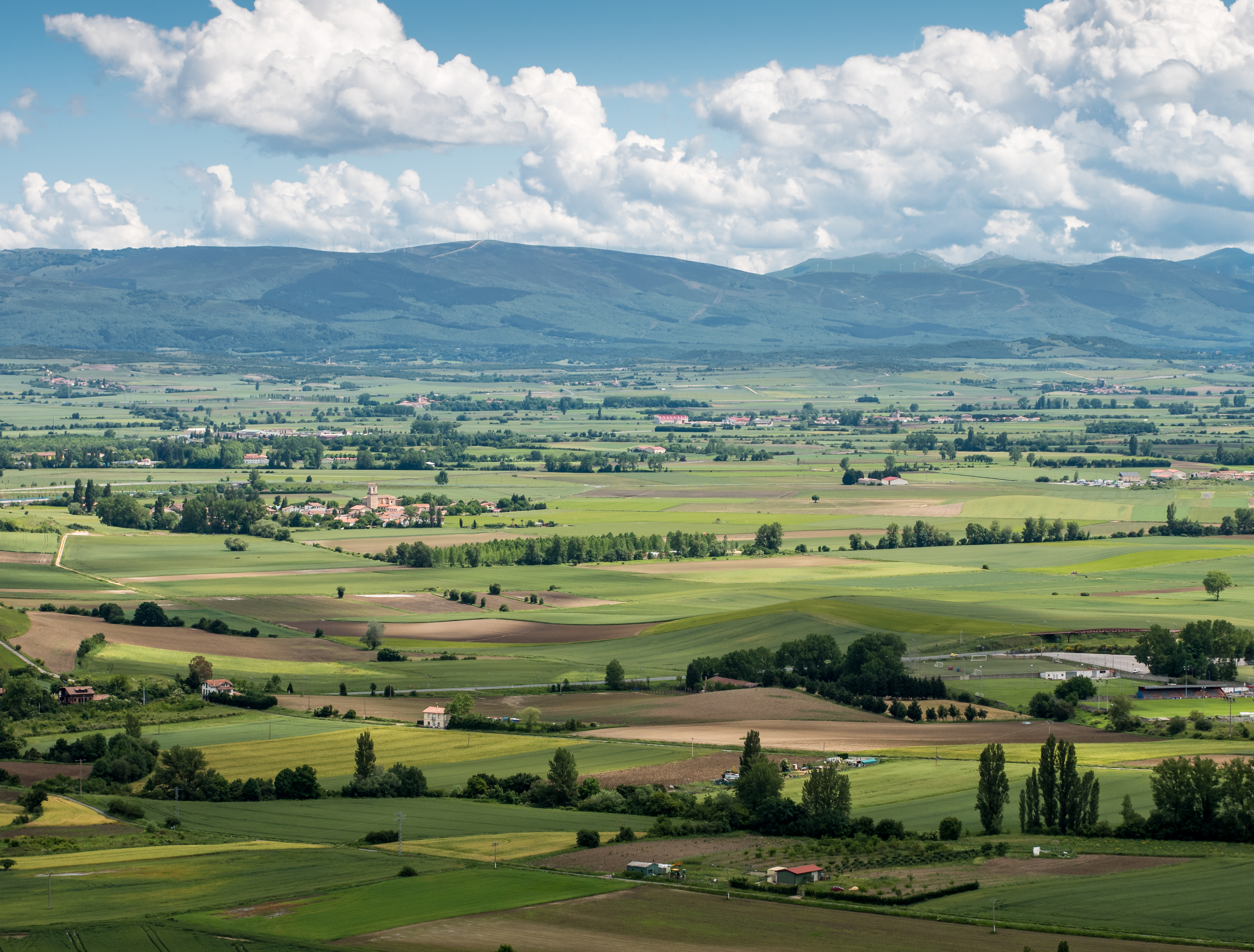 The Alavese Plains as seen from the summit of Olarizu. Álava, Basque Country, Spain